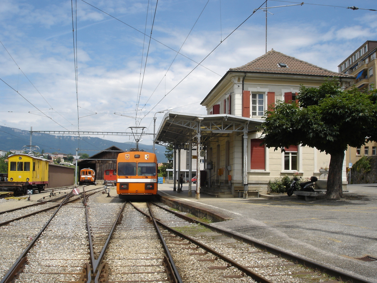 Orbe train station.